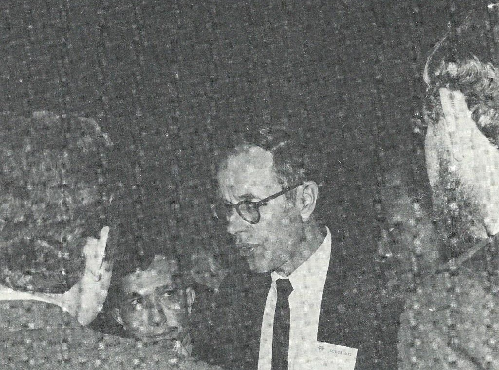 A post-panel reception at the Student Conference on United States Affairs at the United States Military Academy at West Point, New York. Panelist Warner R. Schilling of Columbia University is in discussions with student attendees at the conference.